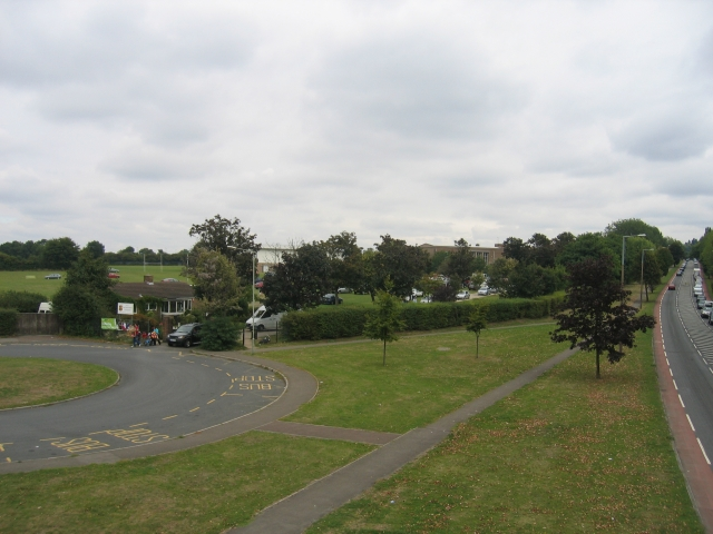 Crypt School, Podsmead, Gloucester. The playing fields and entrance to school drive with the school in amongst the trees.